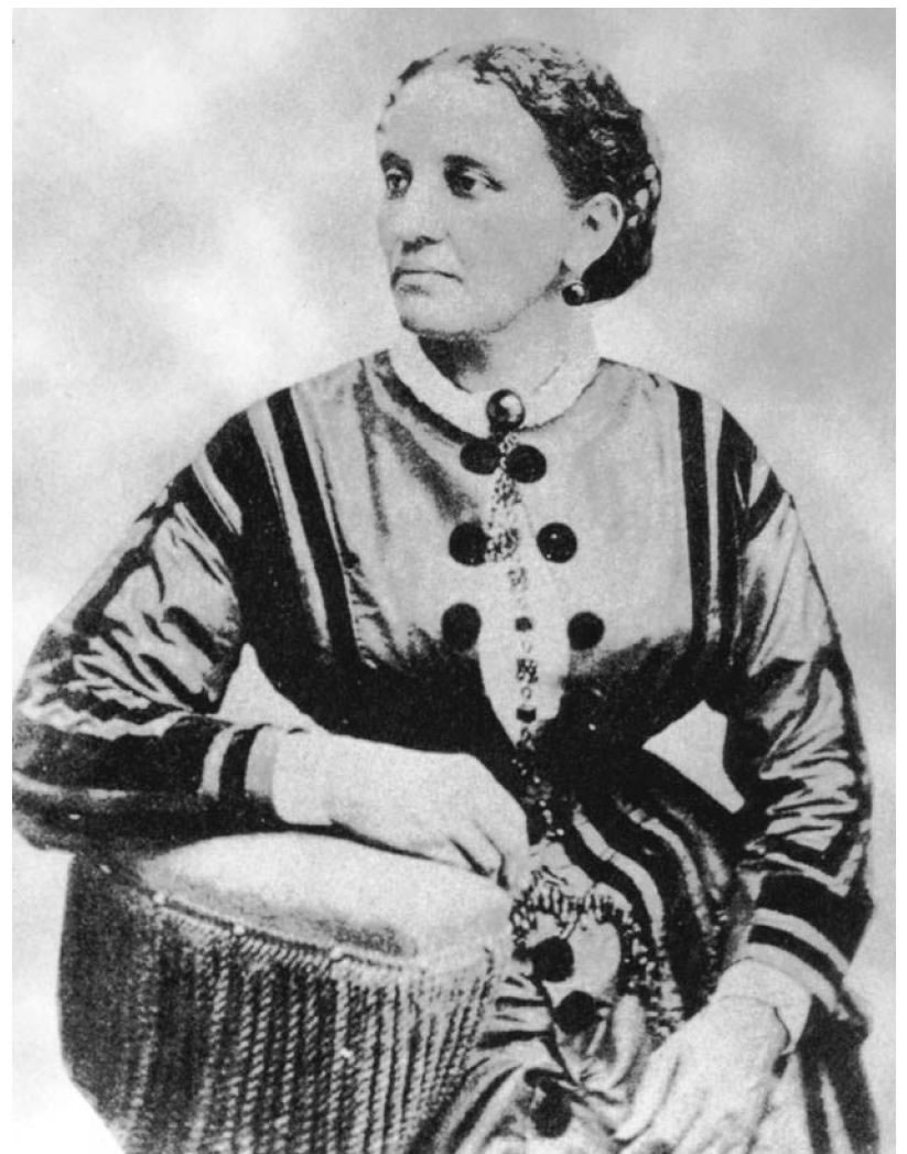 Elizabeth Keckley, around 1870